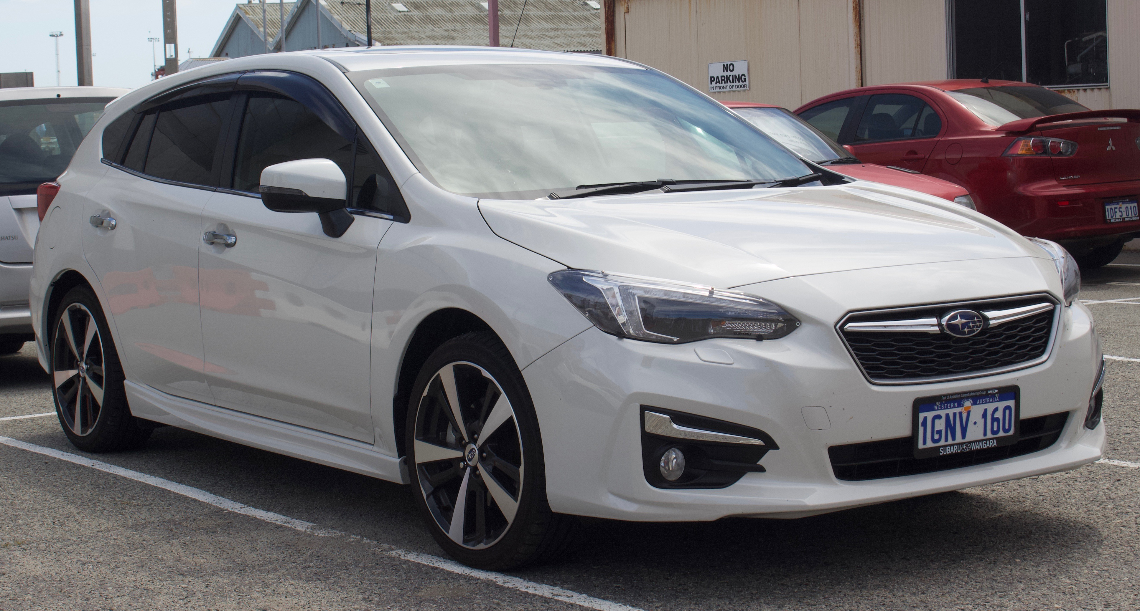 2018 Subaru Impreza (GT7) 2.0i-S hatchback. Photographed in Fremantle, Western Australia, Australia.